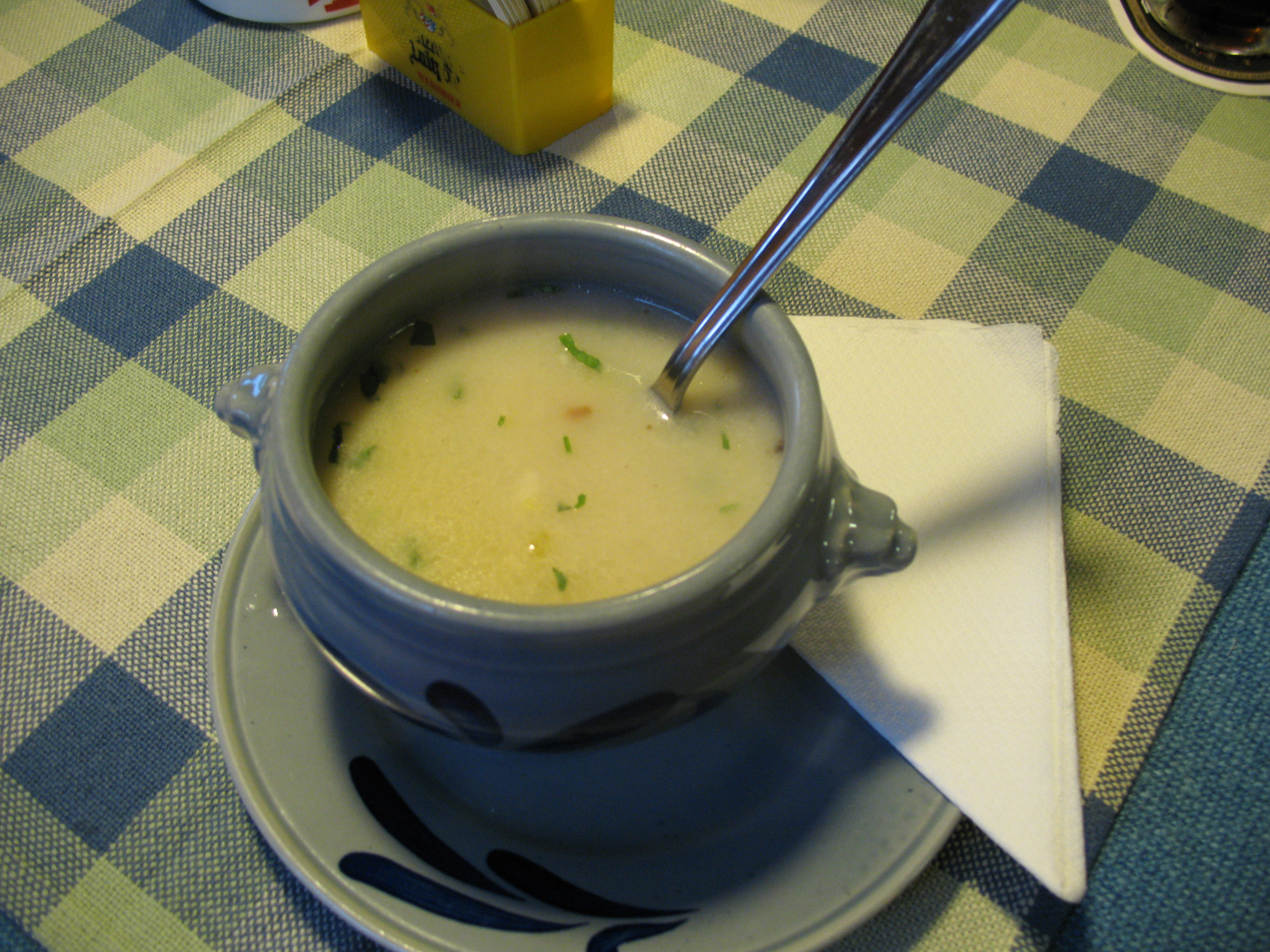 Garlic Soup, Obertraun, Austria